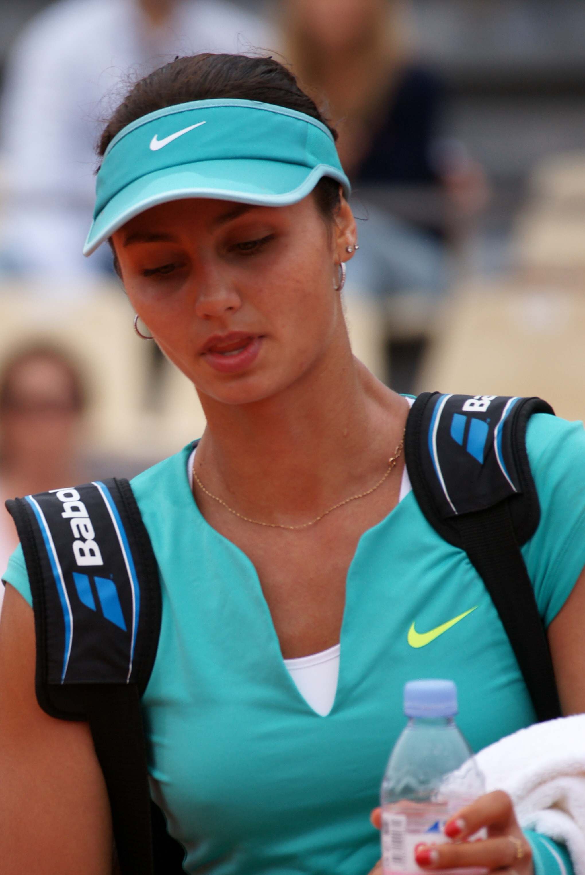 Elizaveta Kulichkova, Open ITF Cagnes 2015